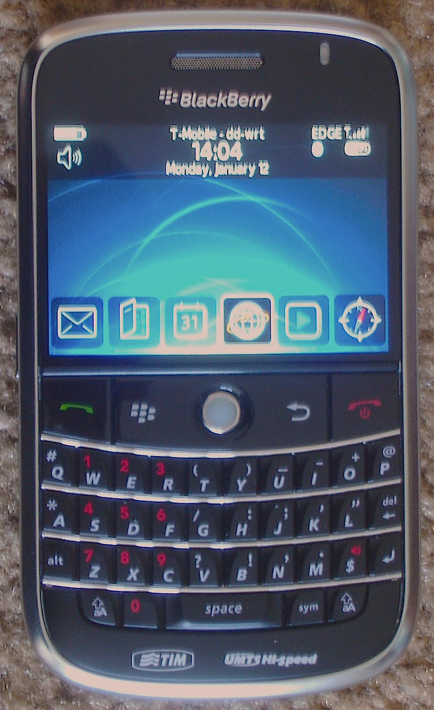 BlackBerry Bold 9000 connected to T-Mobile USA and a DD-WRT Wi-Fi access point.